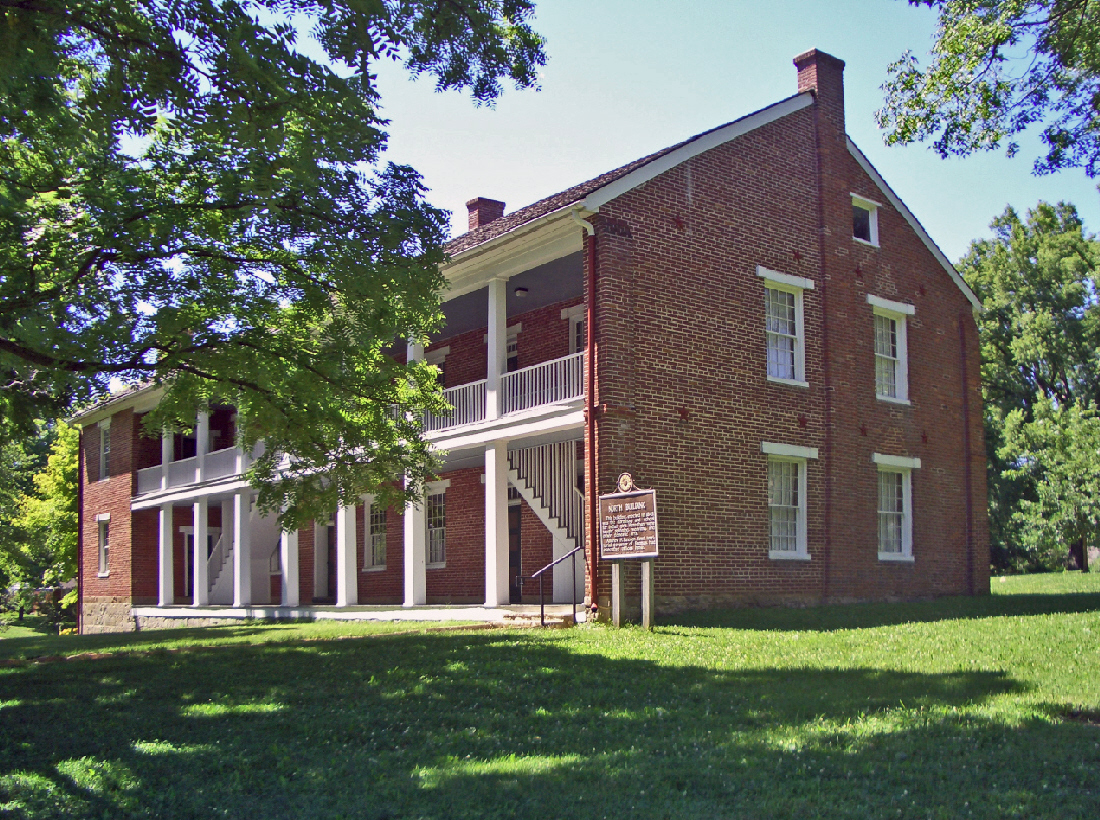 Shawnee Methodist Mission, North Building, National Historic Landmark, Fairway, Kansas